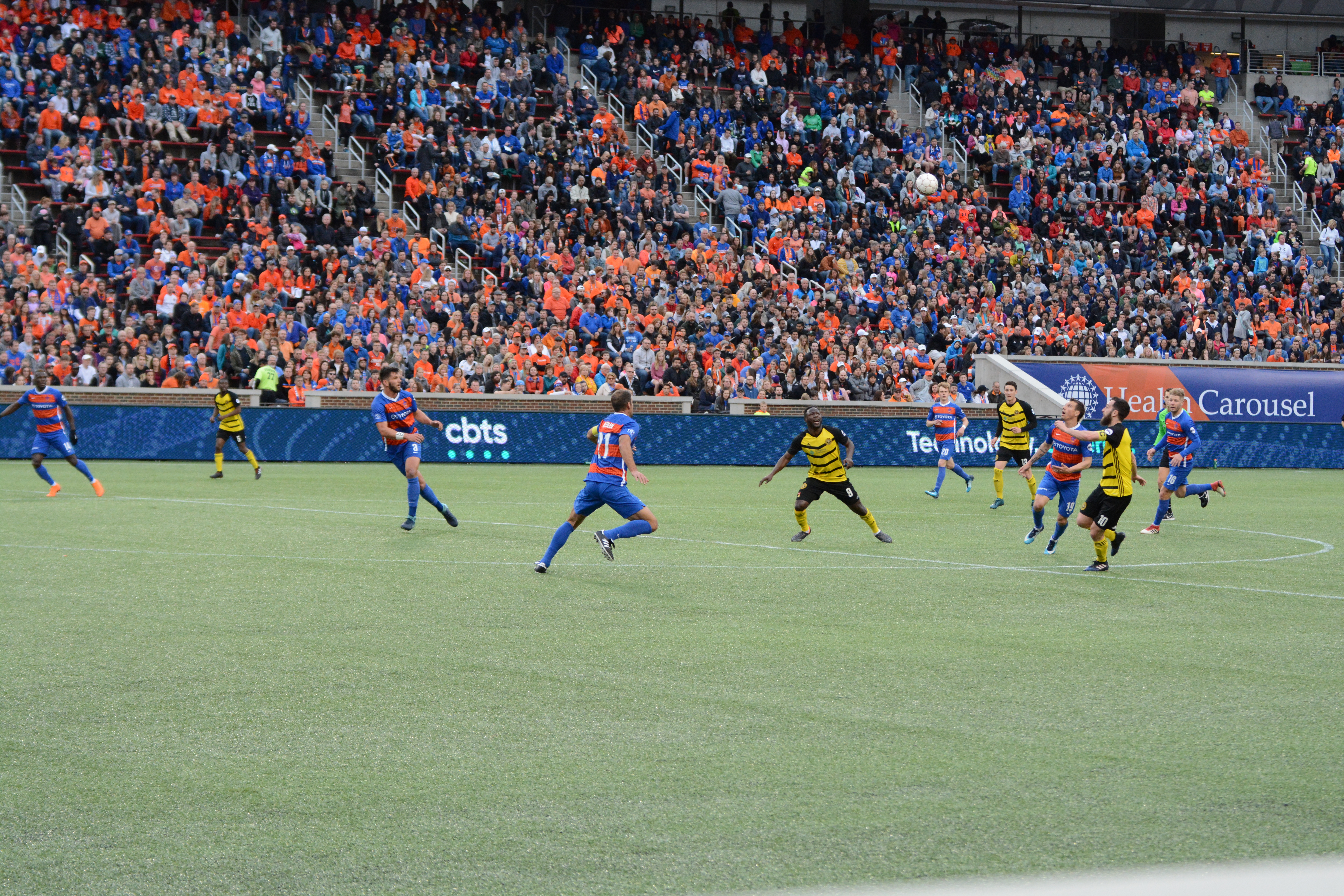 Taken during a USL regular season match between FC Cincinnati and Pittsburgh Riverhounds at Nippert Stadium in Cincinnati, USA on April 21, 2018.